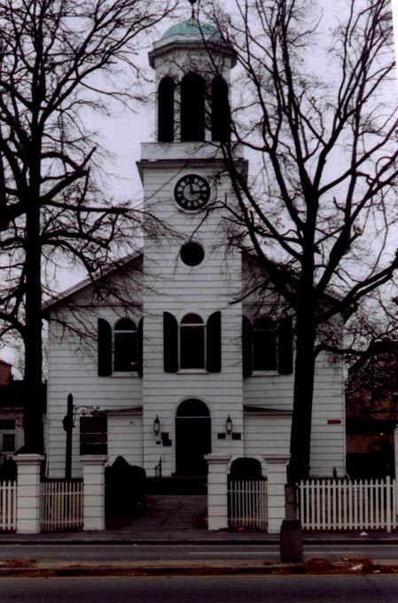 Saint George's Episcopal Church in Hempstead today.